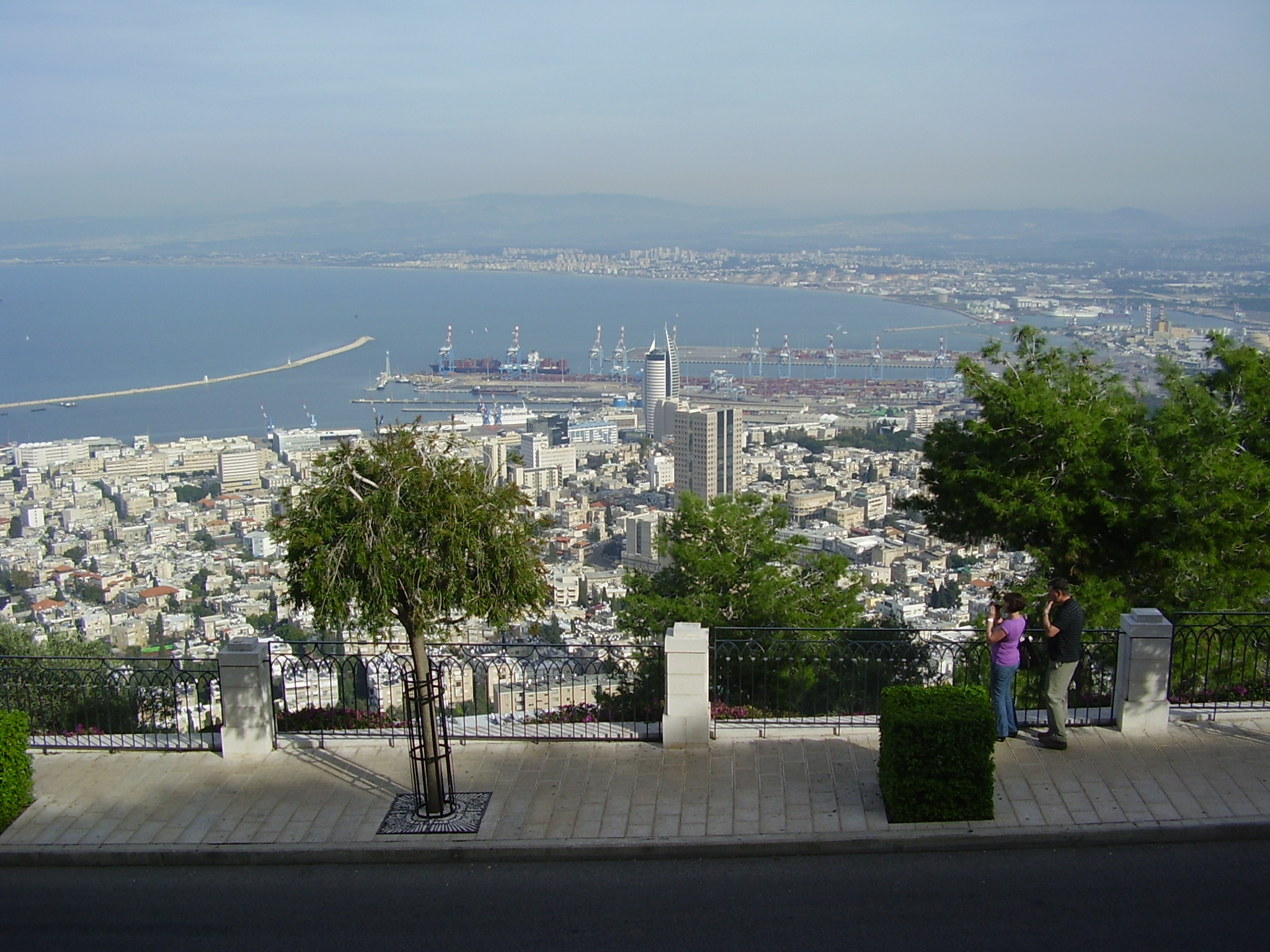 view from louis promenade on haifa and haifa port